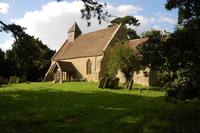 St Michael's parish church, Churchill, Worcestershire, England, seen from the southeast